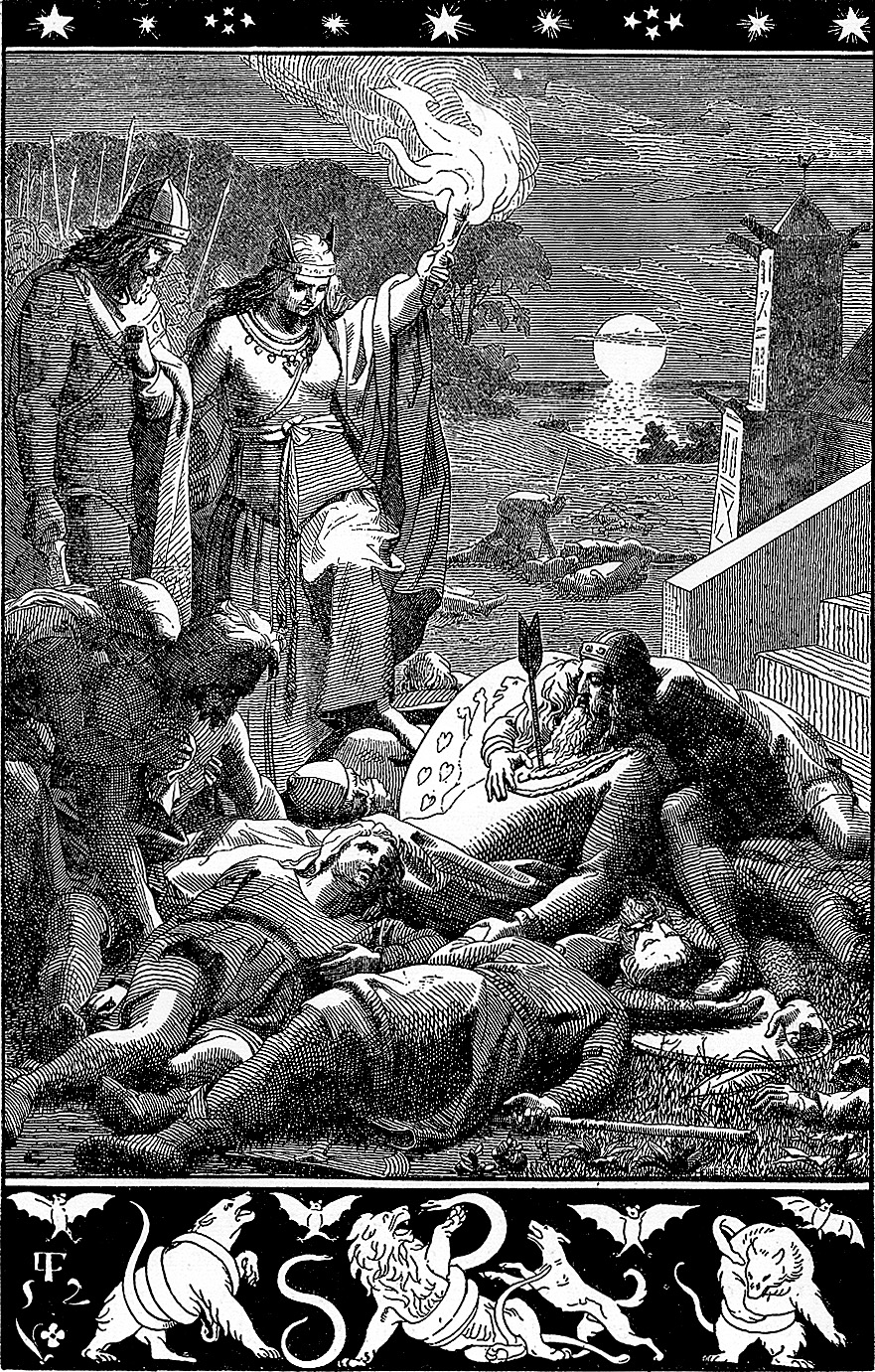 Lorenz Frølich. 1856. Skade make sure that Rolf Krake is dead.